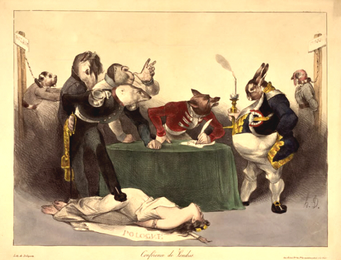 London conference, 1832, headed by TALLEYRAND, French ambassador. At this conference the borders between Belgium, Luxemburg and Holland were redrawn. The horse: Prussia The bear: Russia The monkey: Austria The fox: Britain The hare: France The turkey: Belgium The dog: the Netherlands (Holland) Woman on the floor: Poland References